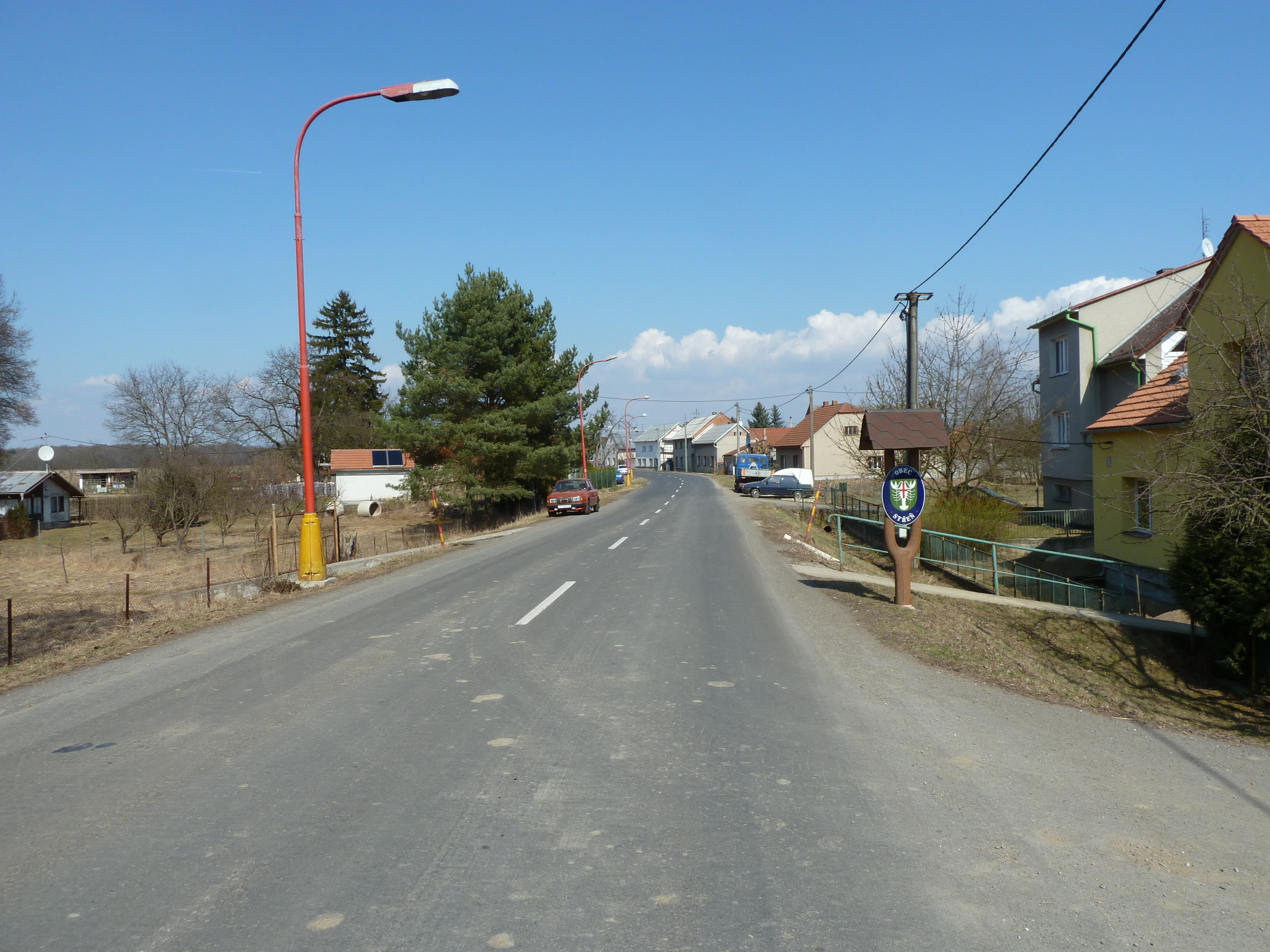 village Střeň (Olomouc district, central Moravia, Czech Republic)